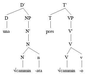 two trees shows syntactic analysis of the noun-verb discrimination in italian